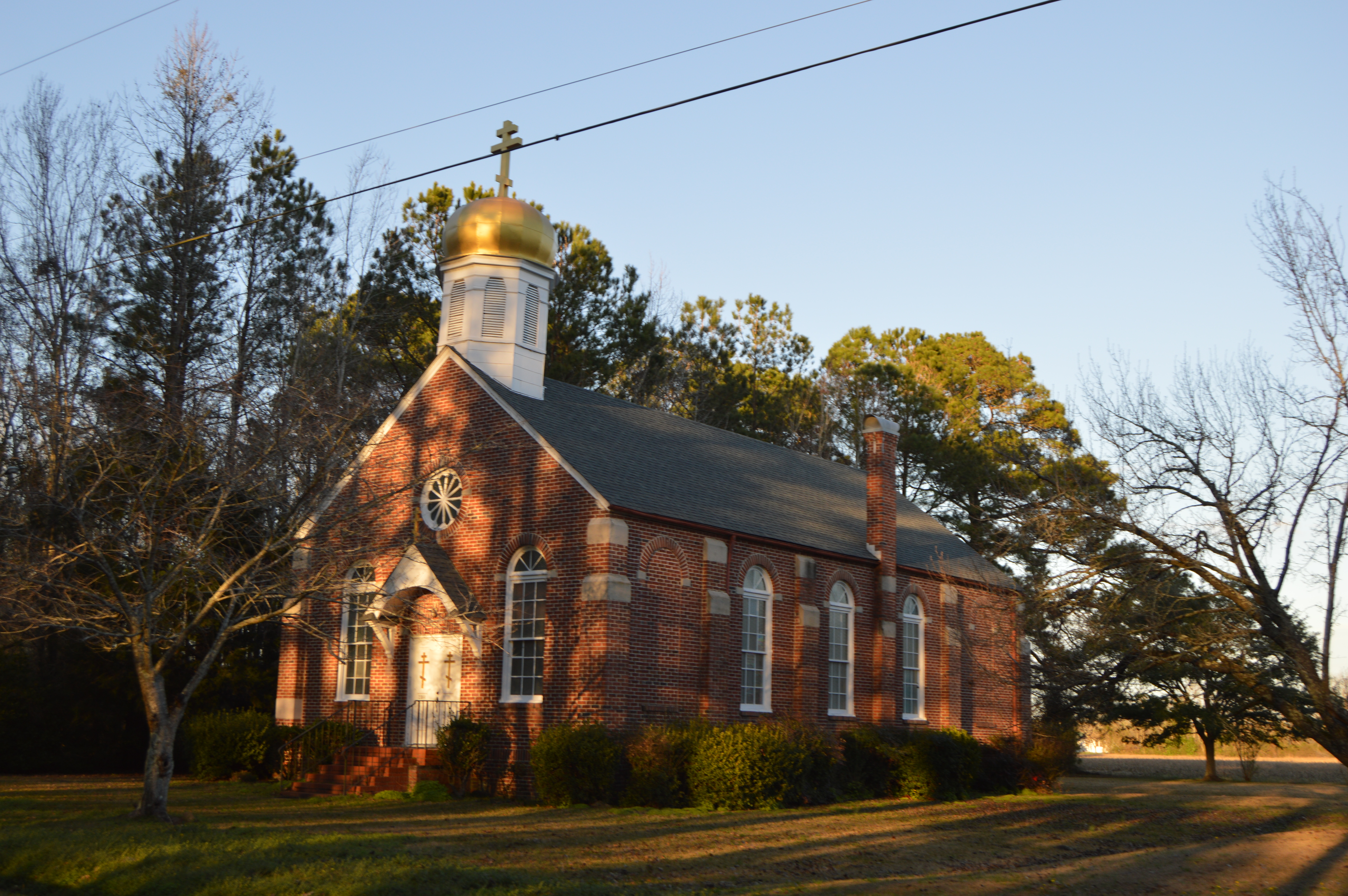 Front and southern side of SS. Peter and Paul's Russian Orthodox Greek Catholic Church, located on Front Street just south of Main Street in St. Helena, North Carolina, United States. Built in 1932, it is listed on the National Register of Historic Places.